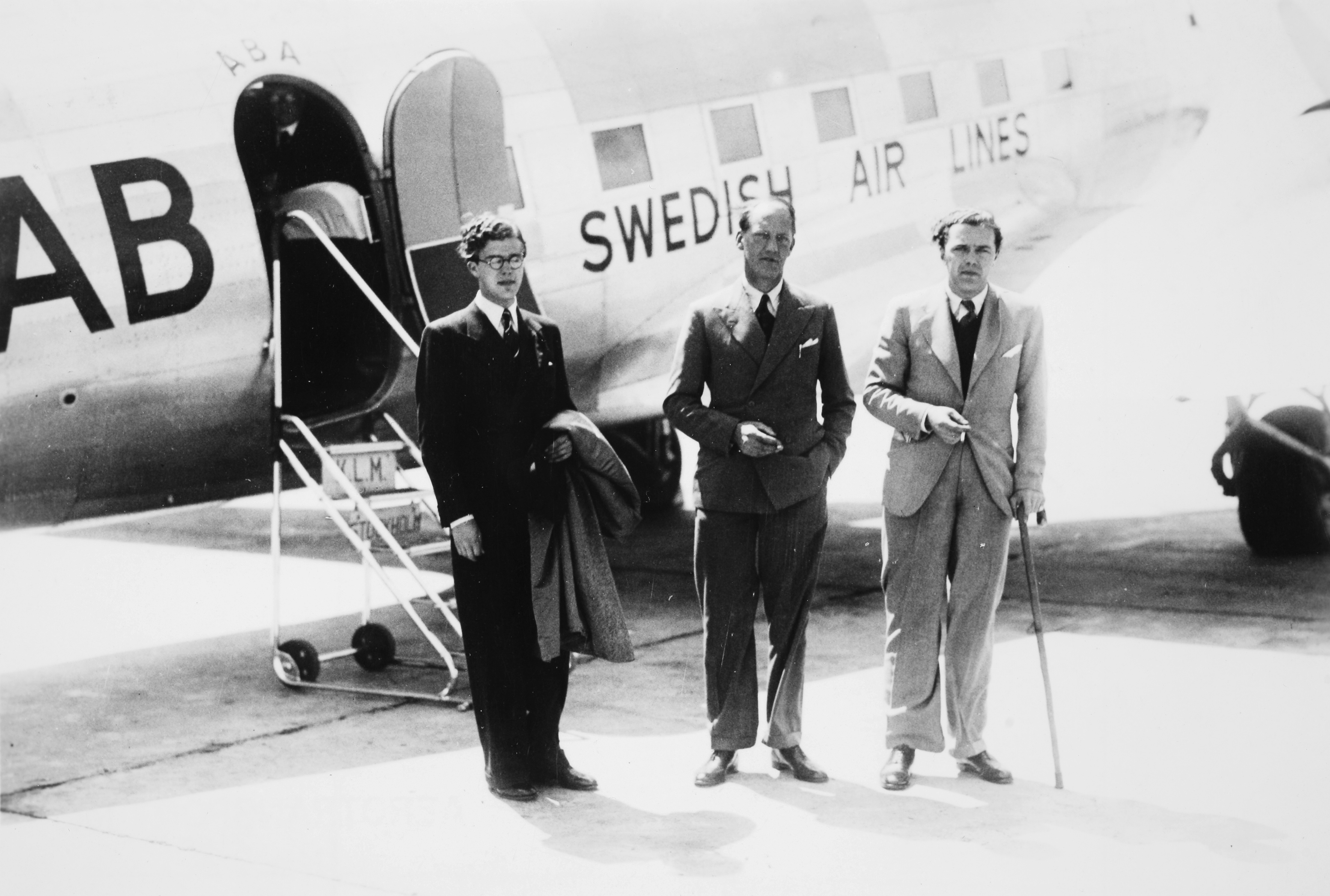 Prince Carl Johan of Sweden, Prince Axel of Denmark and Prince Bertil of Sweden 1940s